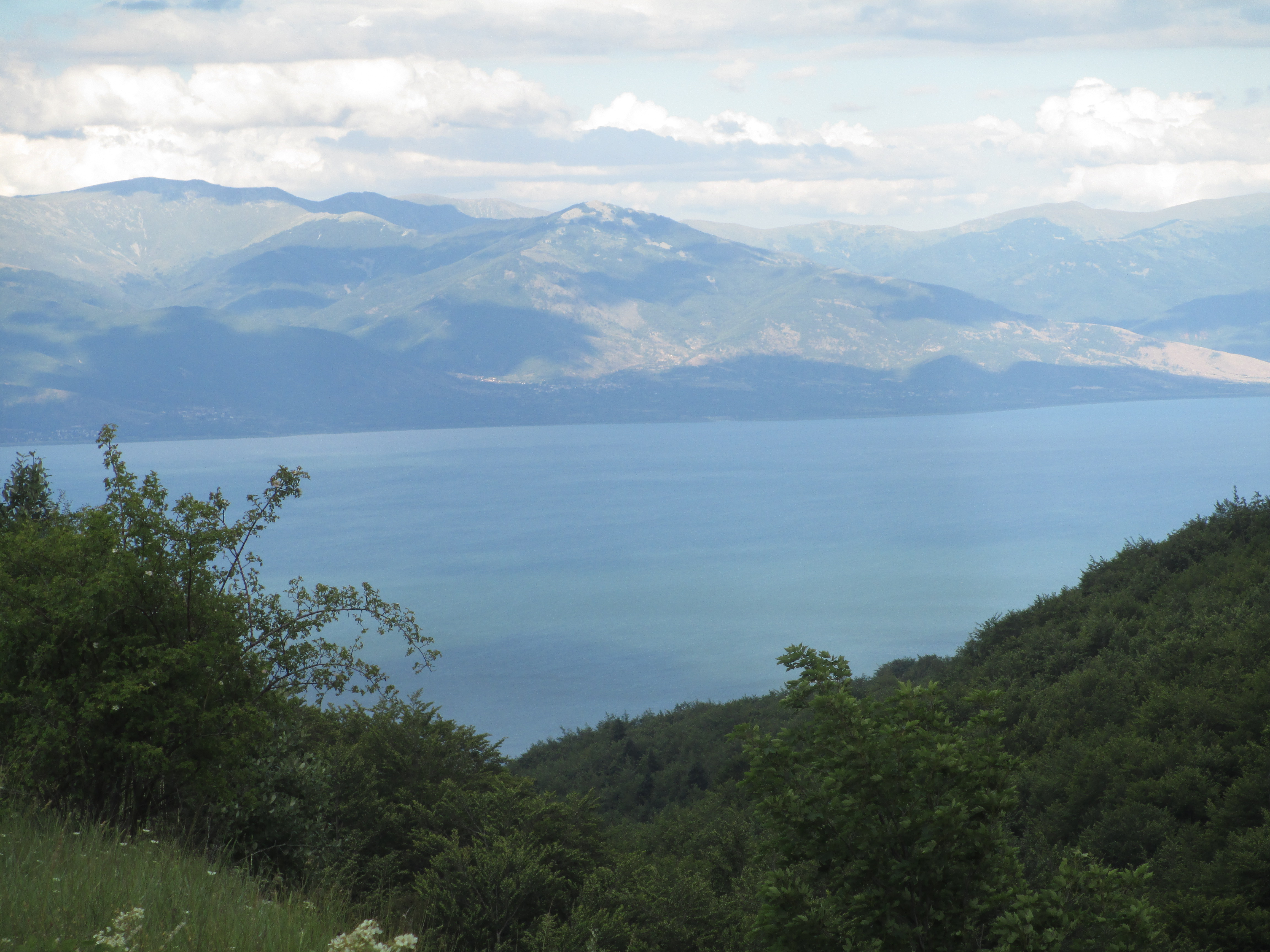 View of Lake Prespa from National Park Galičica